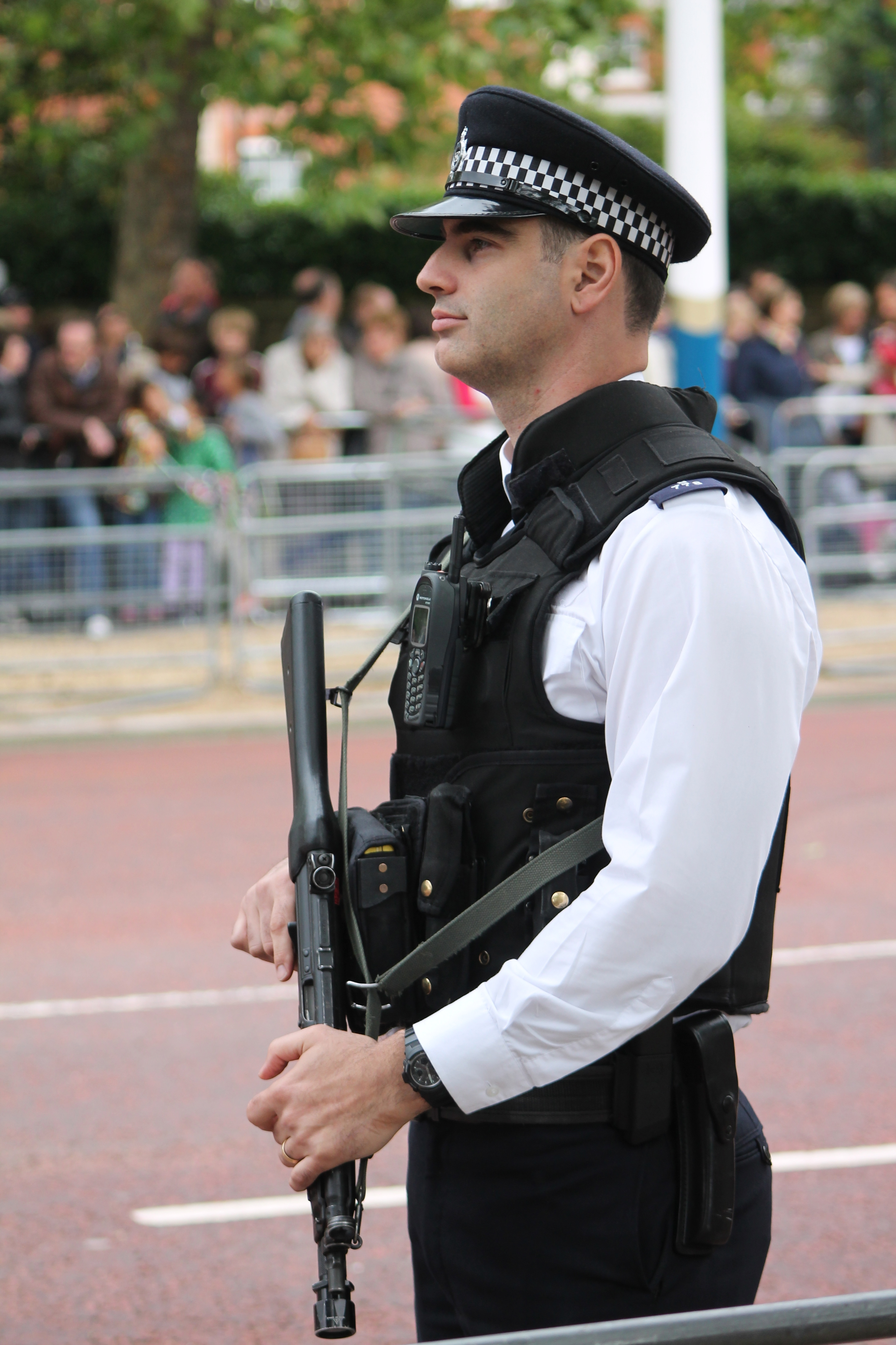 Trooping the Colour, June 2012